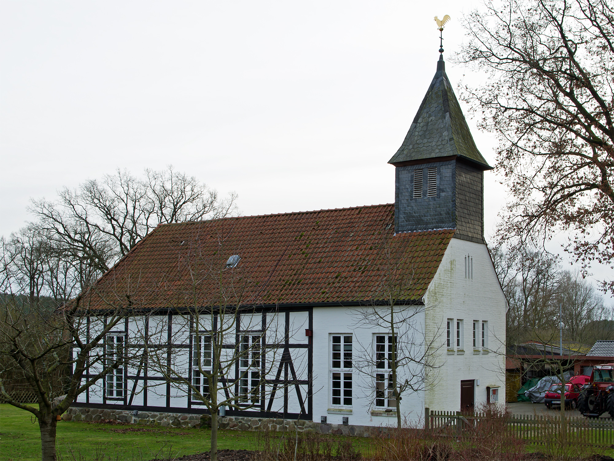 Church of the small village Gülden (district Lüchow-Dannenberg, northern Germany).